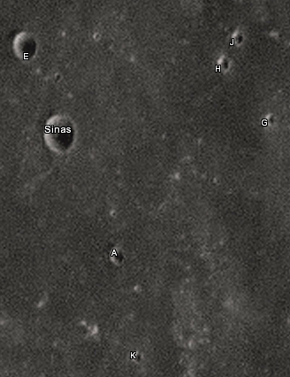 Sinas lunar crater as seen from Earth with satellite craters labeled